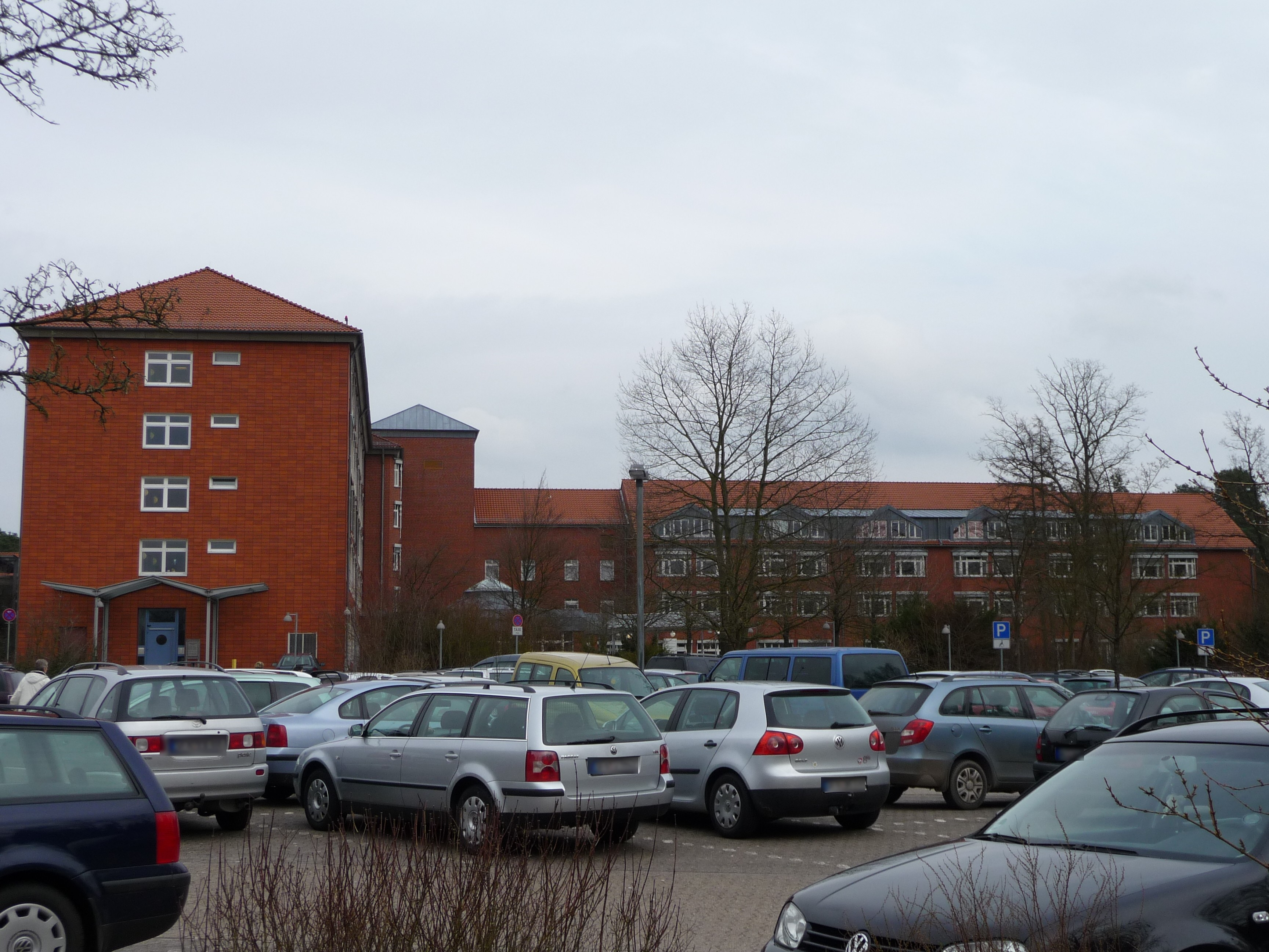 Heidekreis hospital Soltau